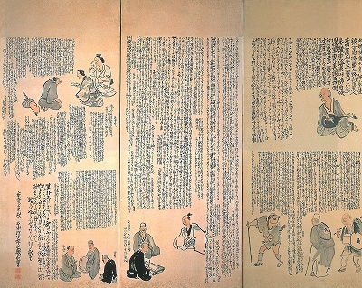 Folding screen by Yosa Buson with Oku no Hosomichi by Matsuo Basho, Yamagata Museum of Art, Yamagata, Yamagata, Japan